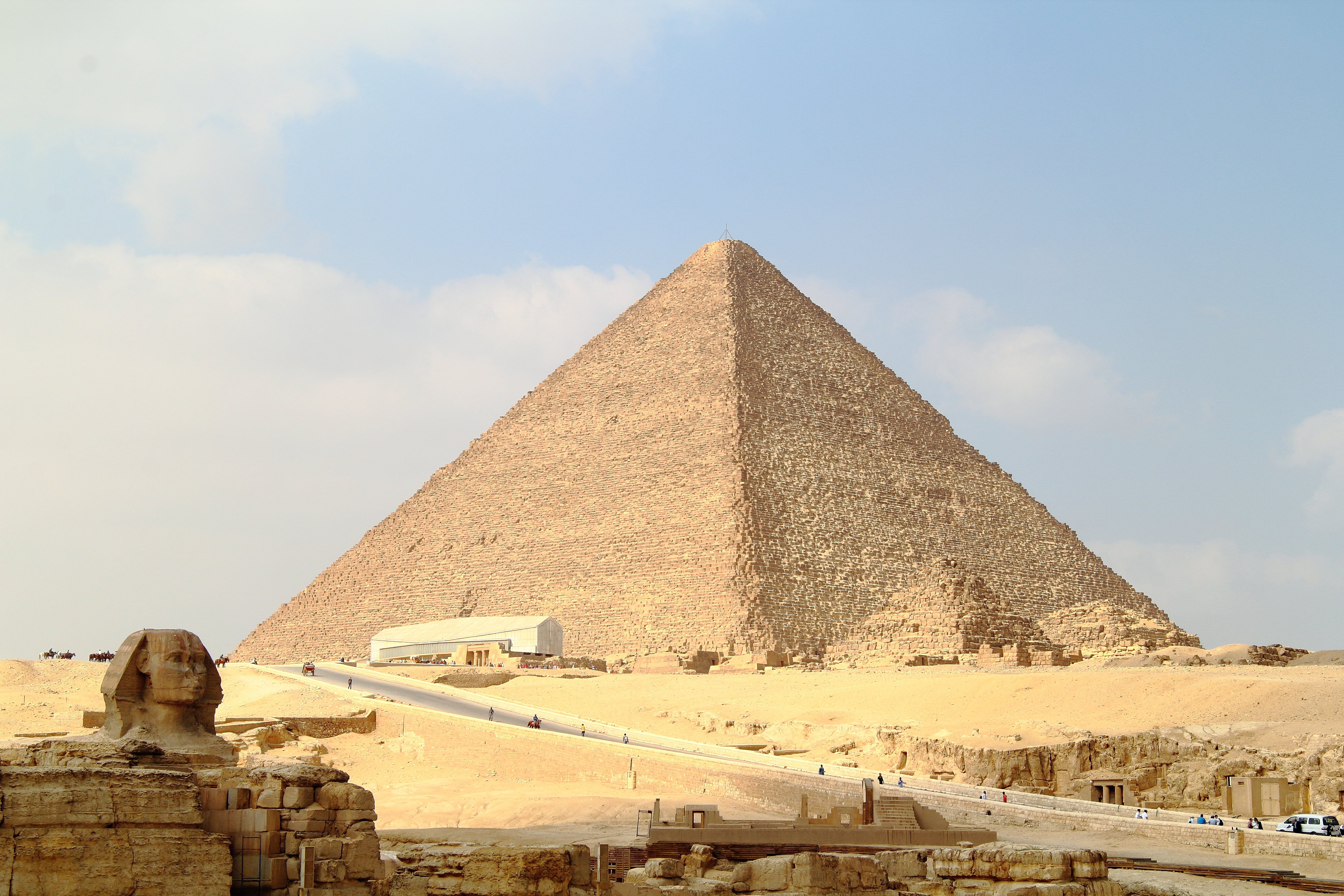 Giza, Egypt: en: Great Pyramid of Giza, tomb of king Khufu